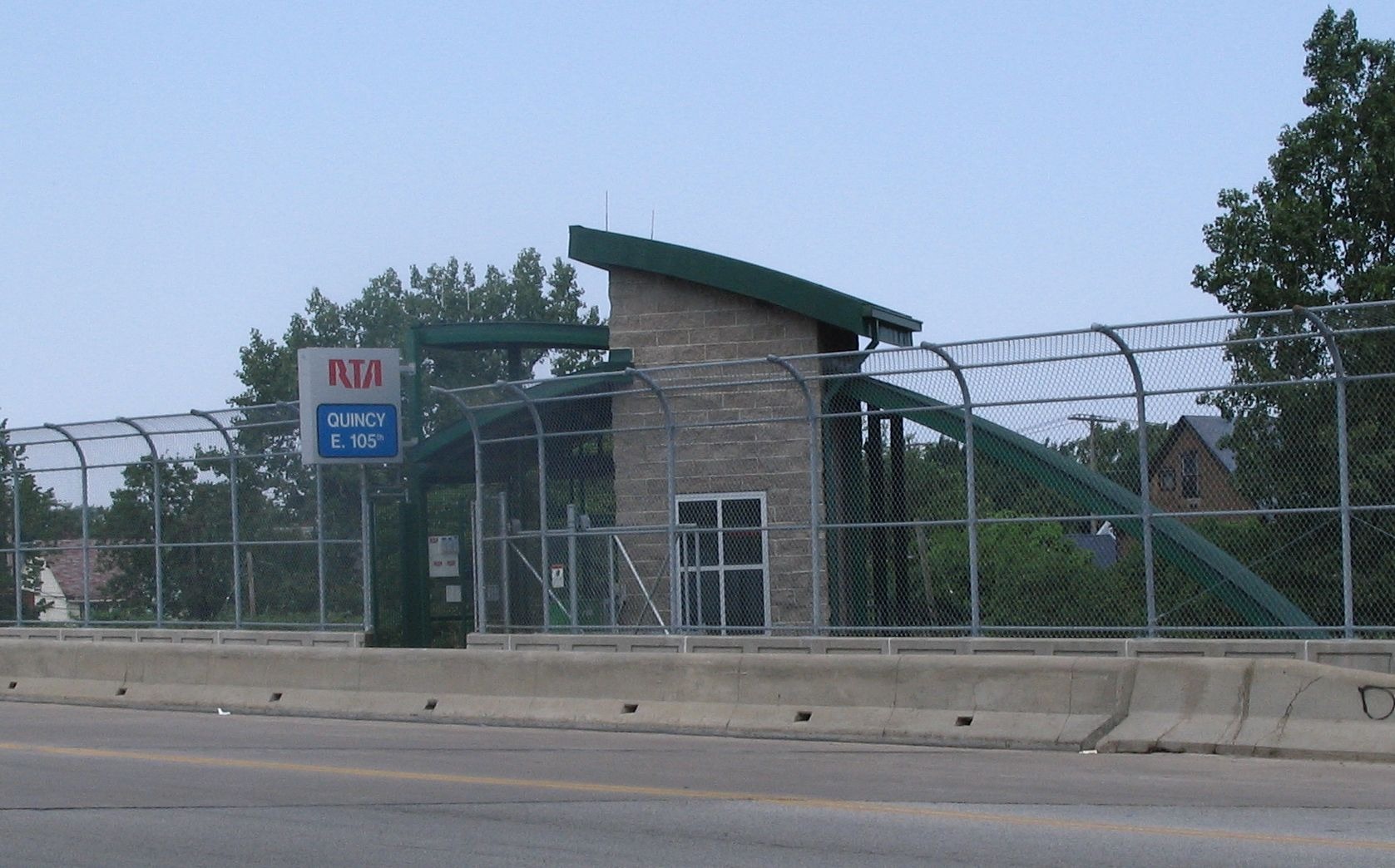 Entrance to East 105th Station on the Red Line of Cleveland RTA Rapid Transit